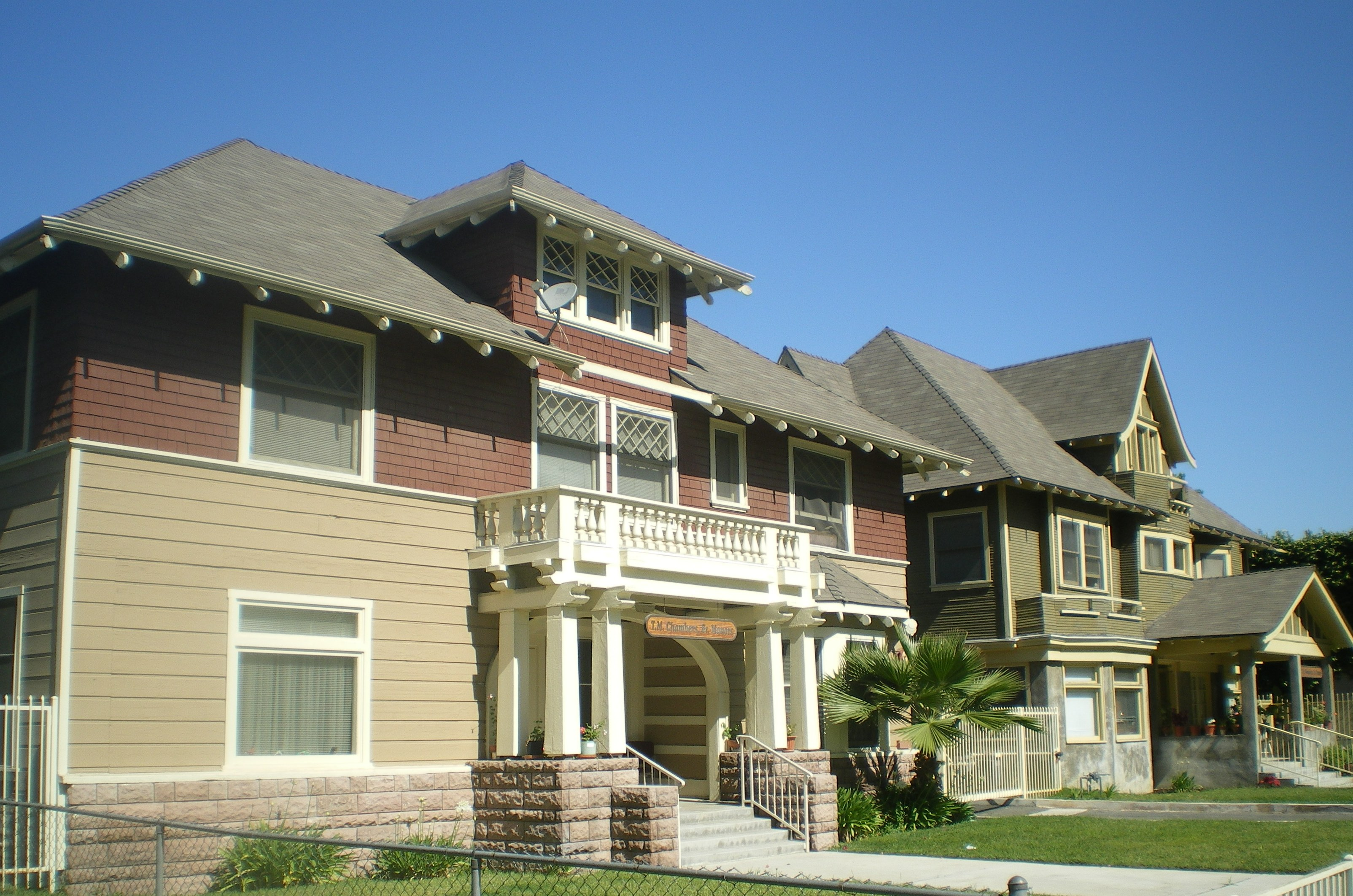 Two house in 2600 block of Menlo Avenue, Los Angeles, California